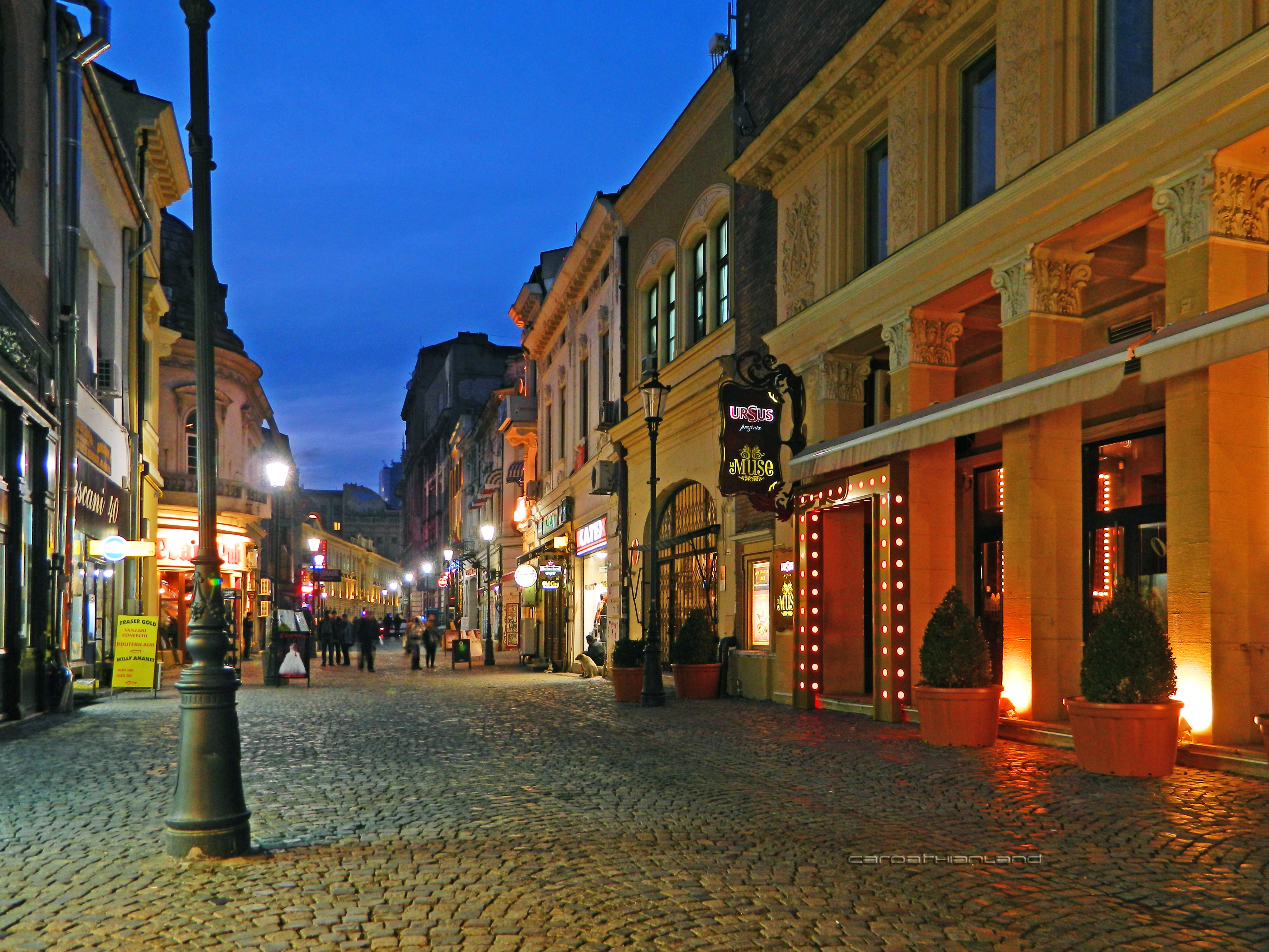 Lipscani Street, Bucharest